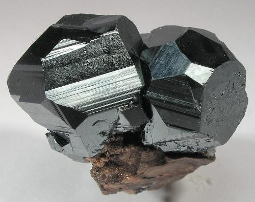 Hematite Locality: Wessels Mine (Wessel's Mine), Hotazel, Kalahari manganese fields, Northern Cape Province, South Africa (Locality at ) Size: 2.8 x 2.6 x 1.8 cm. Beautiful pair of highly lustrous Hematite crystals, on matrix! The mirror-luster shows off wonderfully the delicate striations on the faces of these highly-modified crystals.